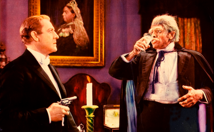 Cropped and edited lobby card featuring Fredric March and Holmes Herbert in Dr. Jekyll and Mr. Hyde (Paramount, 1931). Image is assumed to be in the public domain as no copyright notice has been attached. Reconstruction showing how the movie might have looked if filmed in wide-screen and color.